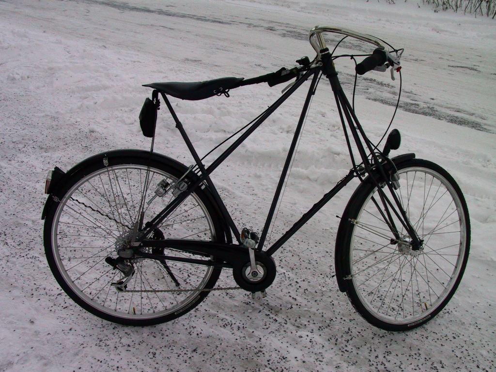 This photo was created by me, Heikki Kastemaa.